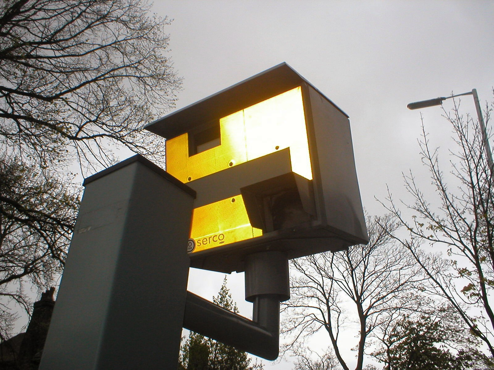 GATSO Speed CameraSpeed Camera